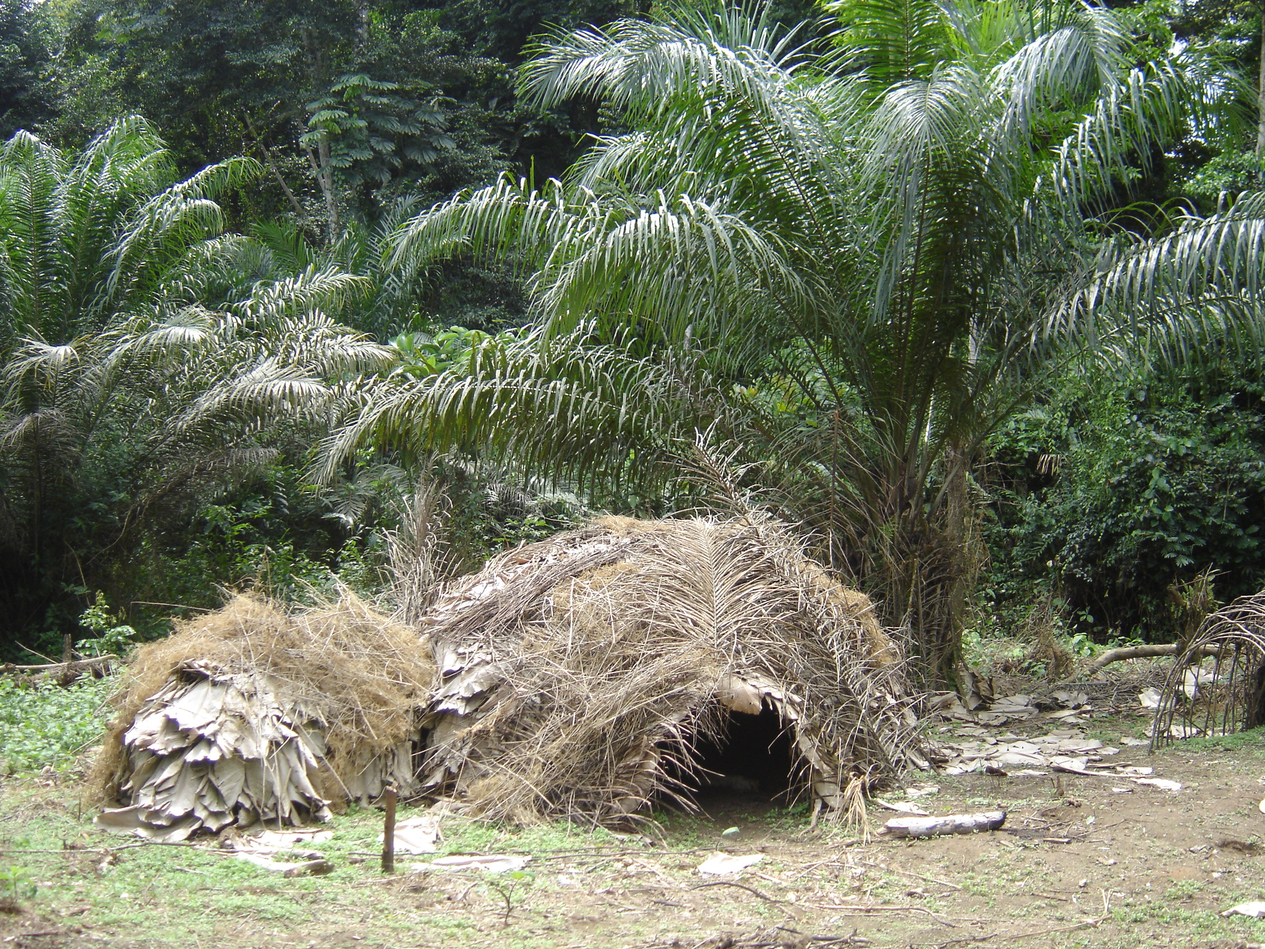 Dja Faunal Reserve (Cameroon)